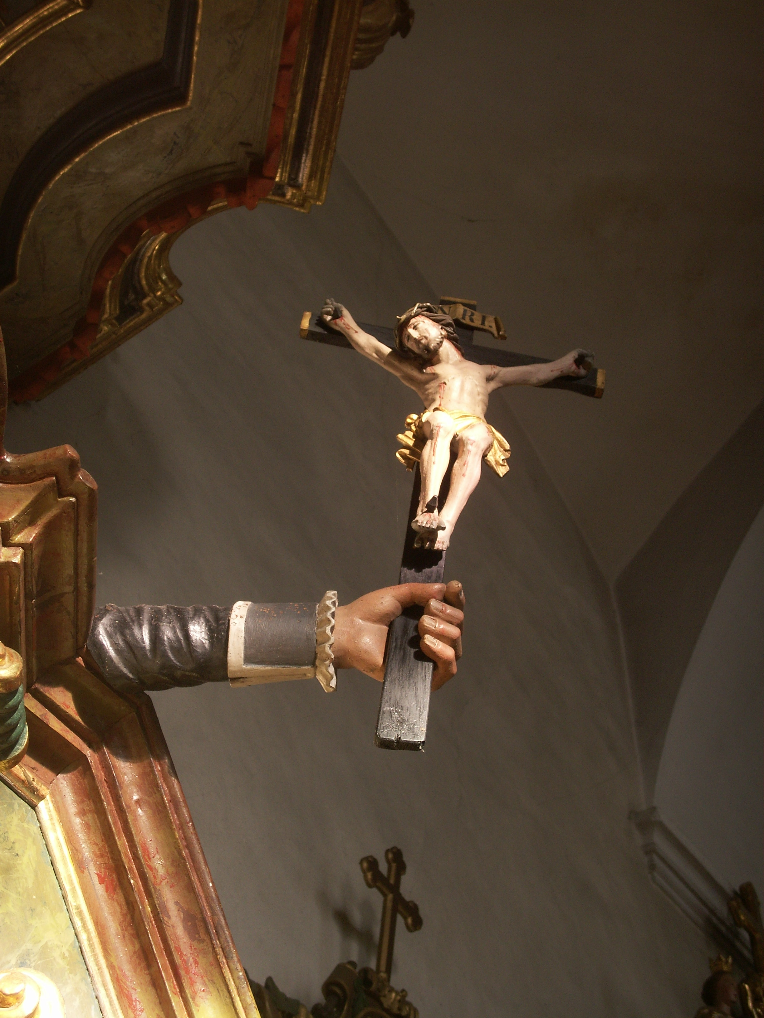 Church in Molzbichl near Spittal an der Drau / Carinthia / Austria / EU.